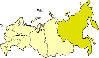 far east: economic region based on Image:Economic regions of Russia.png